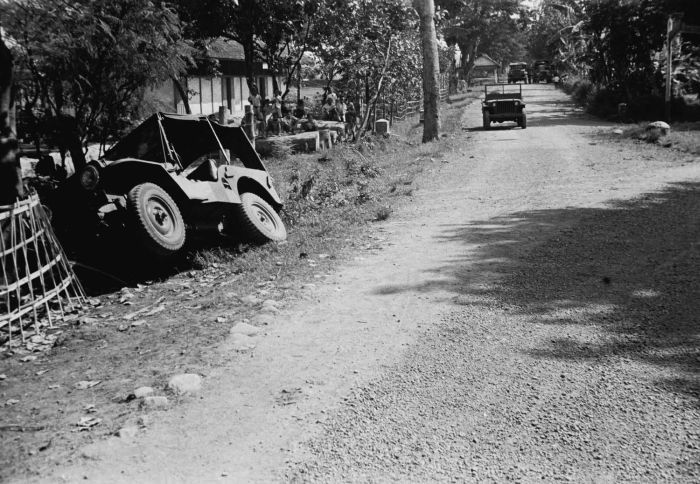 Left: most probably Willys CJ2A, background: Willys MB/Ford GPW